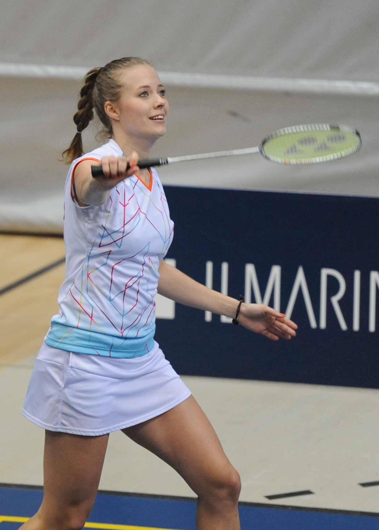 Nanna Vainio is a female badminton player from Finland.